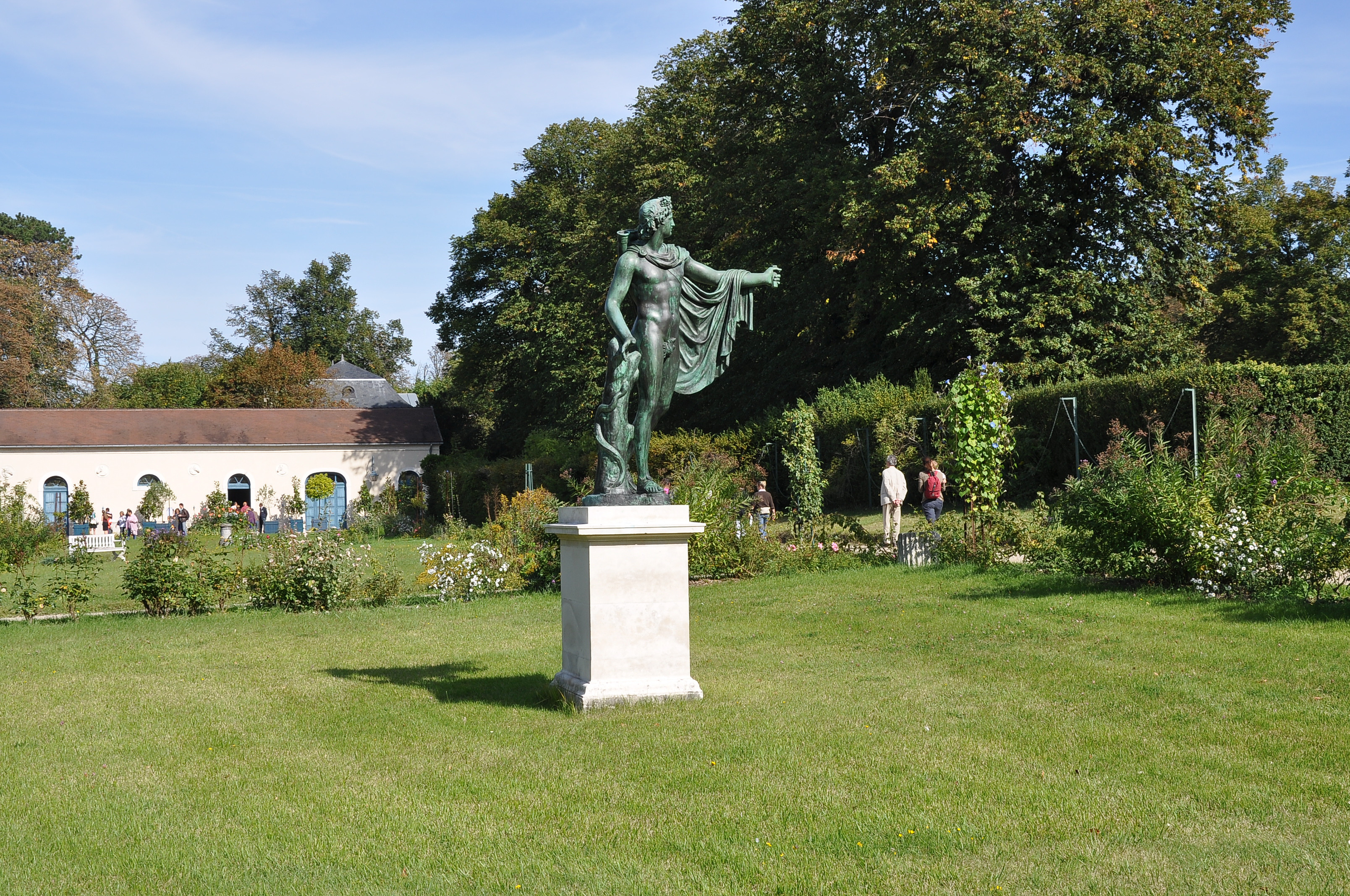 Park of Château de la Malmaison in Rueil-Malmaison, Hauts-de-Seine department in France.